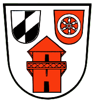 Coat of Arms of Kleinwallstadt